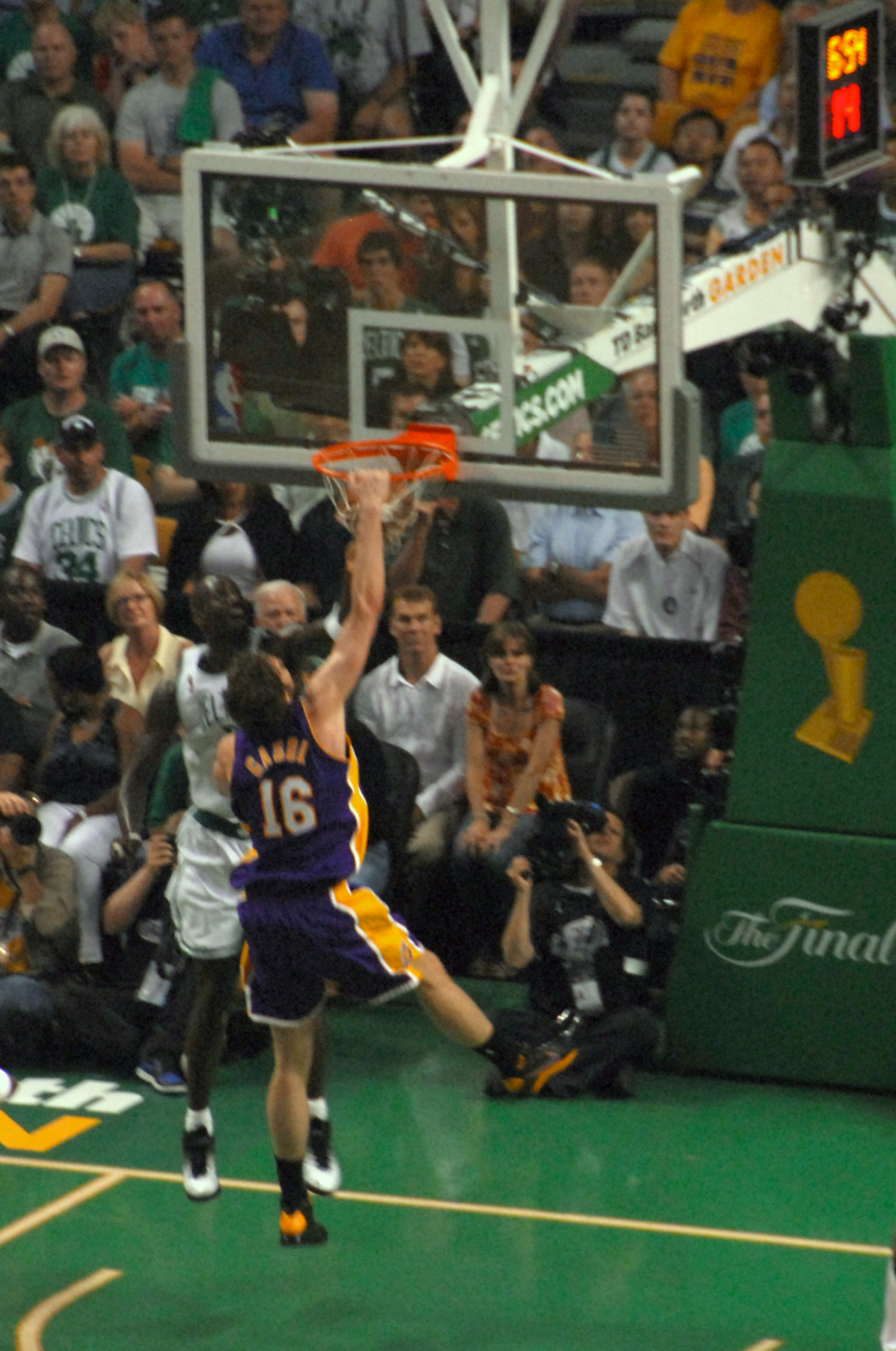 Pau Gasol dunking in Game 2 of the 2008 NBA Finals